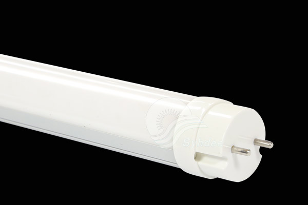 LED tube applied in indoor luminaires; LED fluorescent tube replacement.